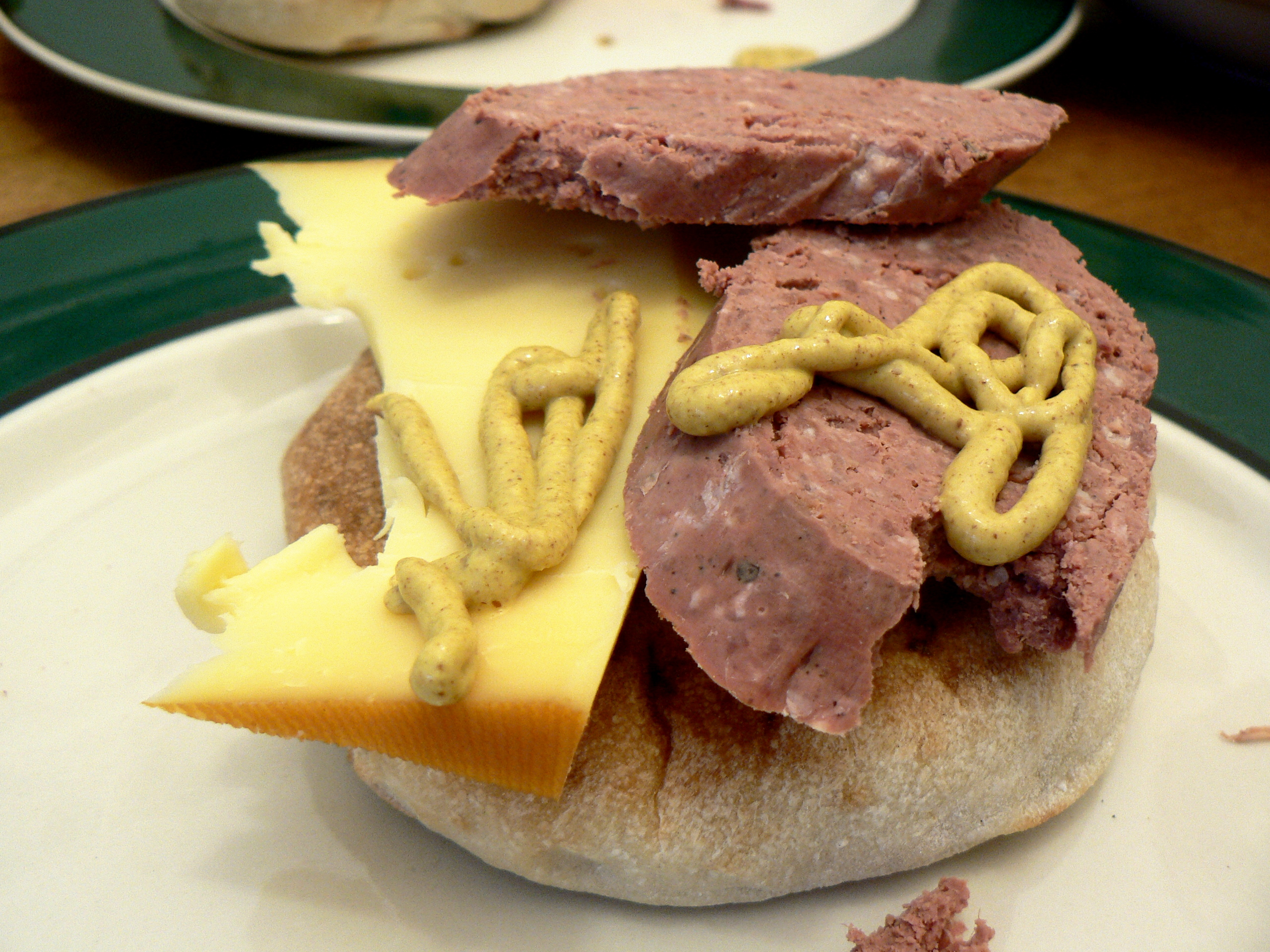 Braunschweiger from Chef's Choice Meats, on muffin with cheese and mustard.